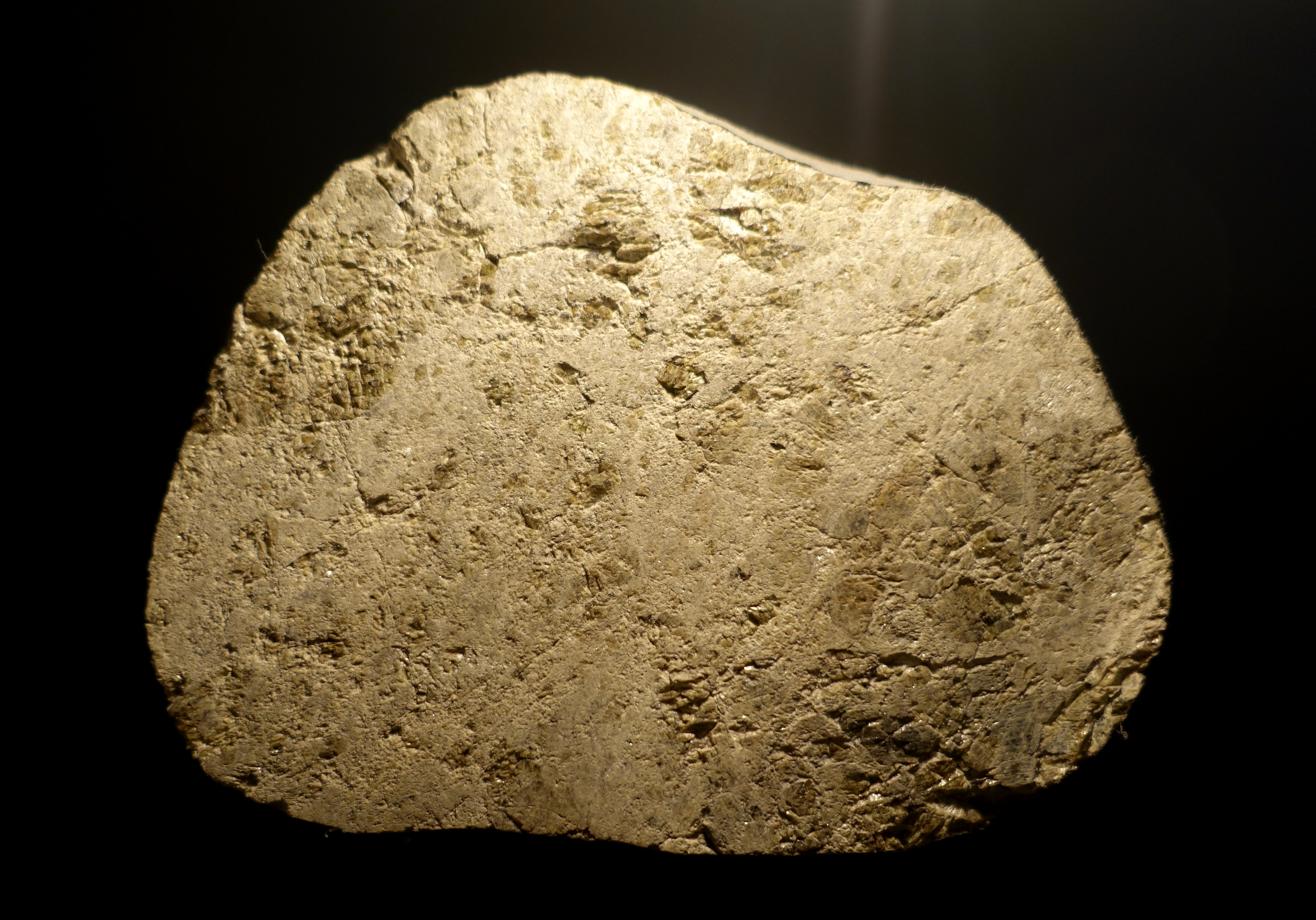 Ibbenbüren meteorite, diogenite. Exhibit in Museum für Naturkunde, Berlin, Germany.